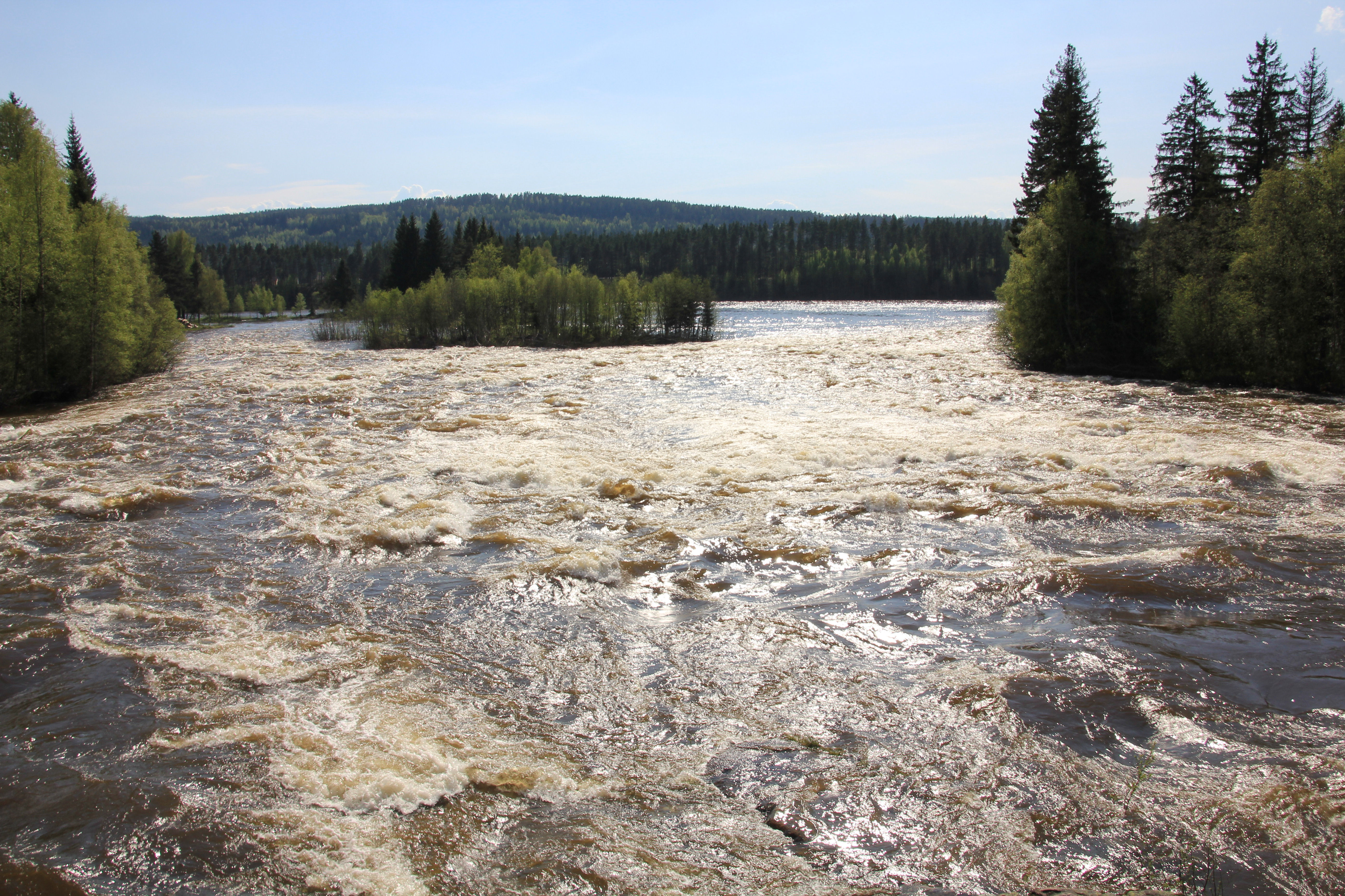 Eastern part of Glomma River past Prestøya island by Elverum, Hedmark, Norway. Østre halvdel av Glomma forbi Prestøya.